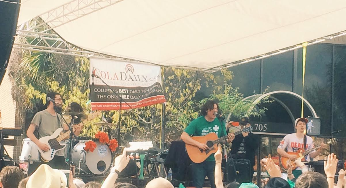 The Front Bottoms in Columbia, SC